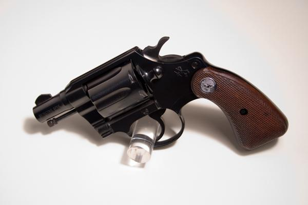 Colt Detective Special 1960